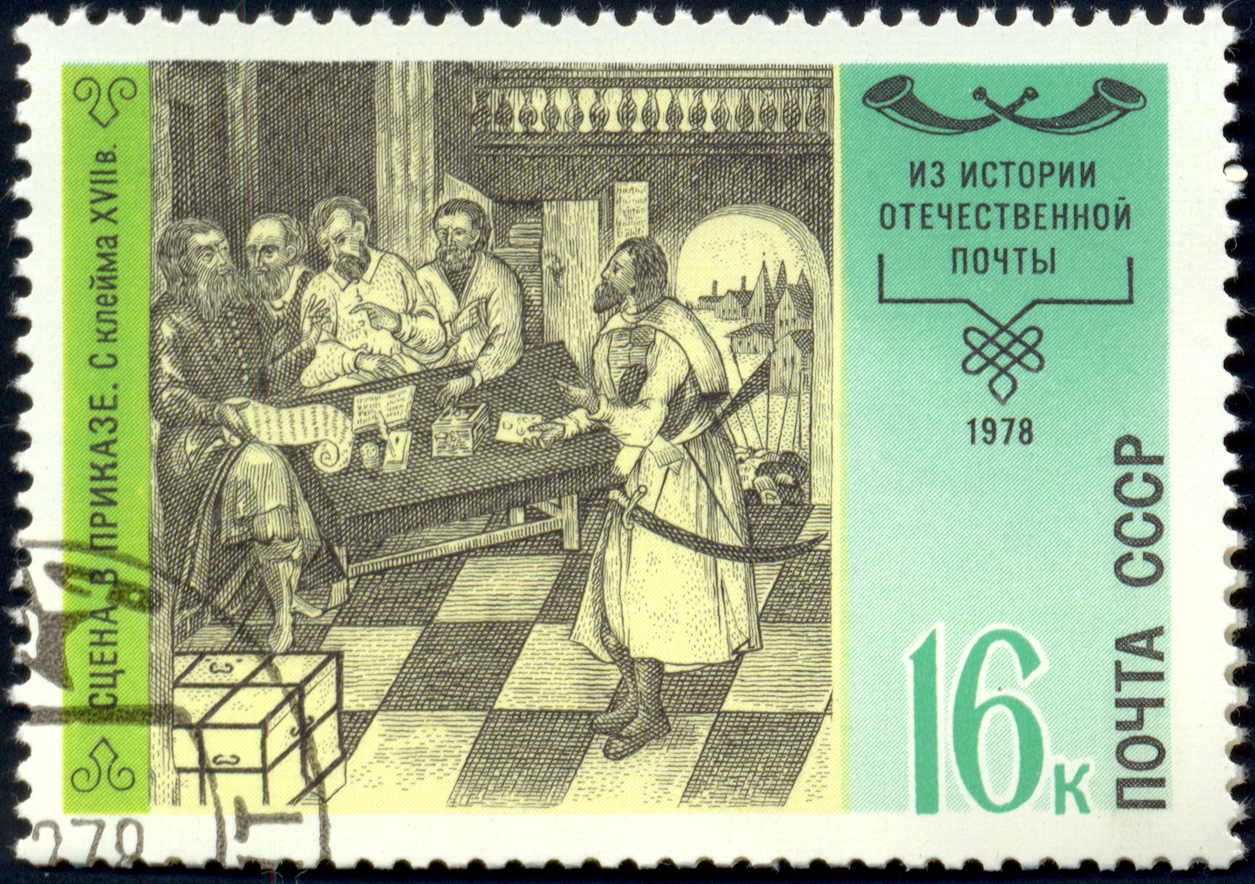 USSR stamp, Russian postal history, 1978, 16 kop.